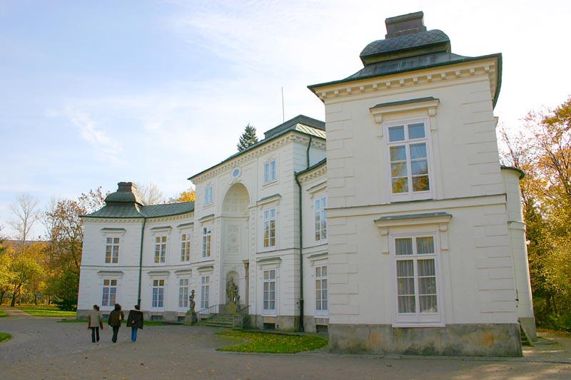 Lazienki Park in Warsaw with the permission of the authors Marek and Ewa Wojciechowscy from [